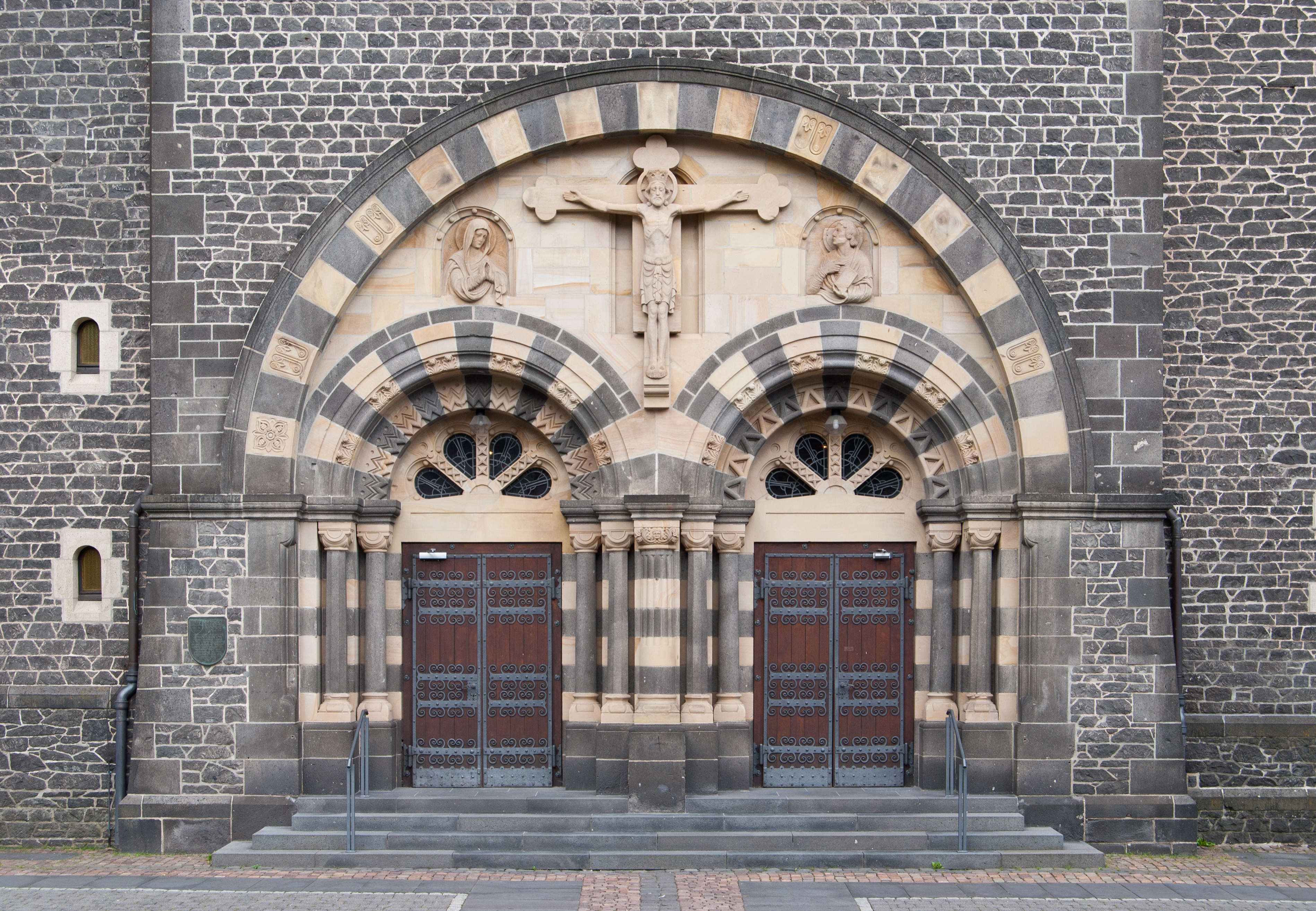 Mayen (Rhineland-Palatinate, Germany) – Catholic Church of the Sacred Heart – portal This is a photograph of an architectural monument.It is on the list of cultural monuments of Mayen This photograph was taken with a Nikon D3000